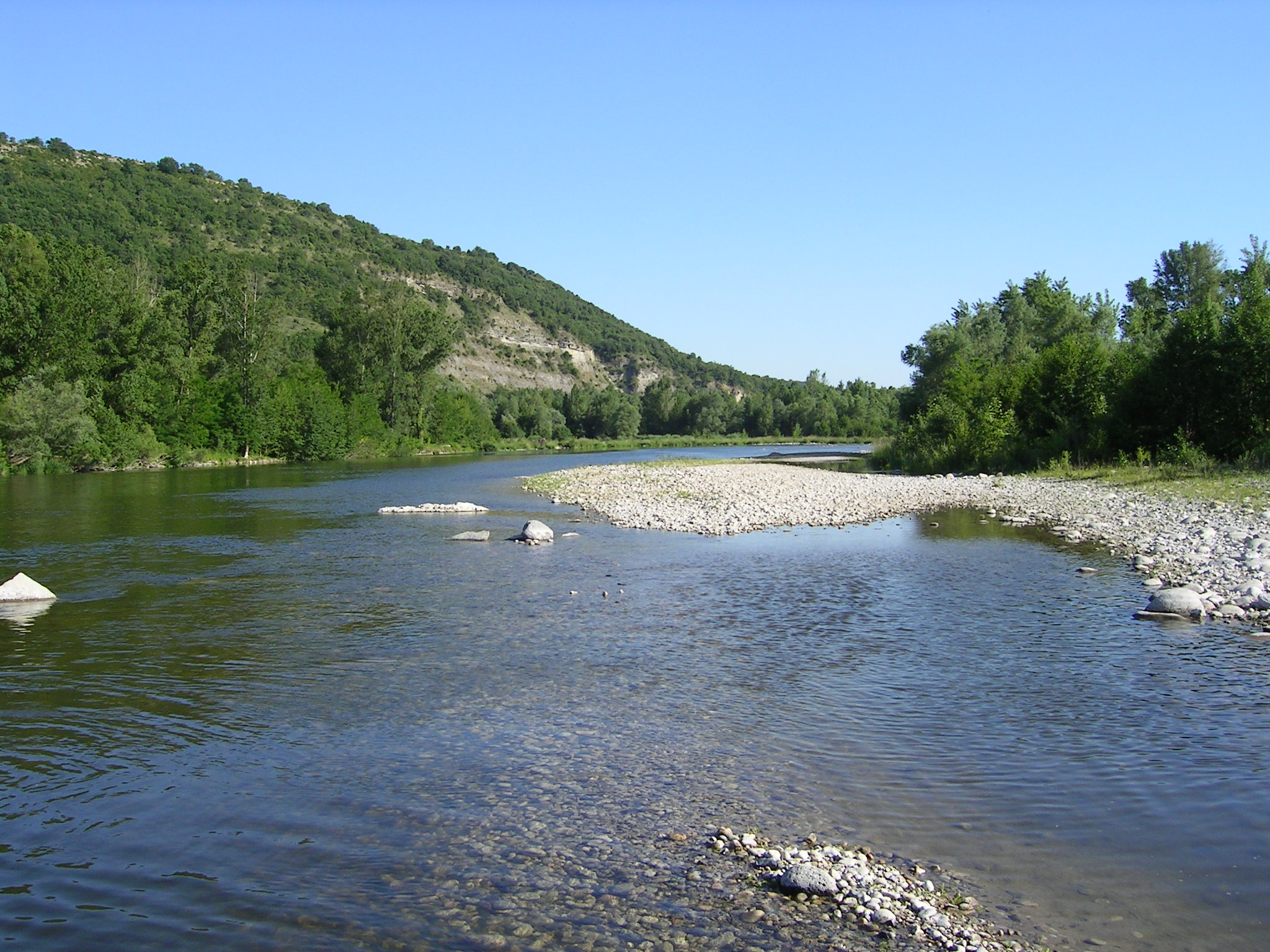 Description: Ardèche River, France. Photo taken near the city of Aubenas. Source: own picture (Thomas Rosenau, User:Pumbaa80) Date: see metadata section below Other versions: opposite view Description: La rivière Ardèche, près d'Aubenas. Source: Image prise par Thomas Rosenau (User:Pumbaa80) Date: voir ci-dessous (section «Metadata») Autres versions: vue opposée